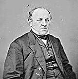 James M. Humphrey, US Representative from New York